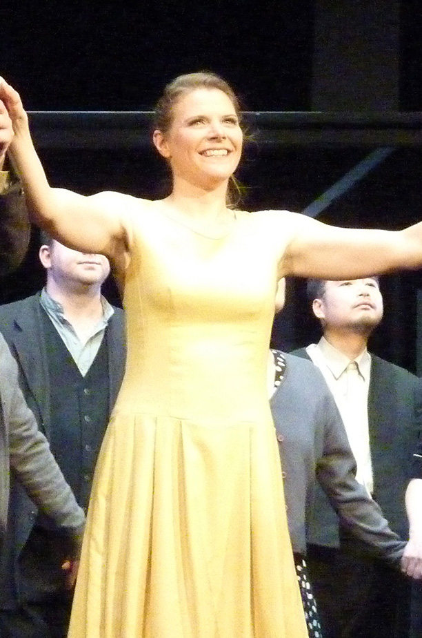 Bianca Koch at applause